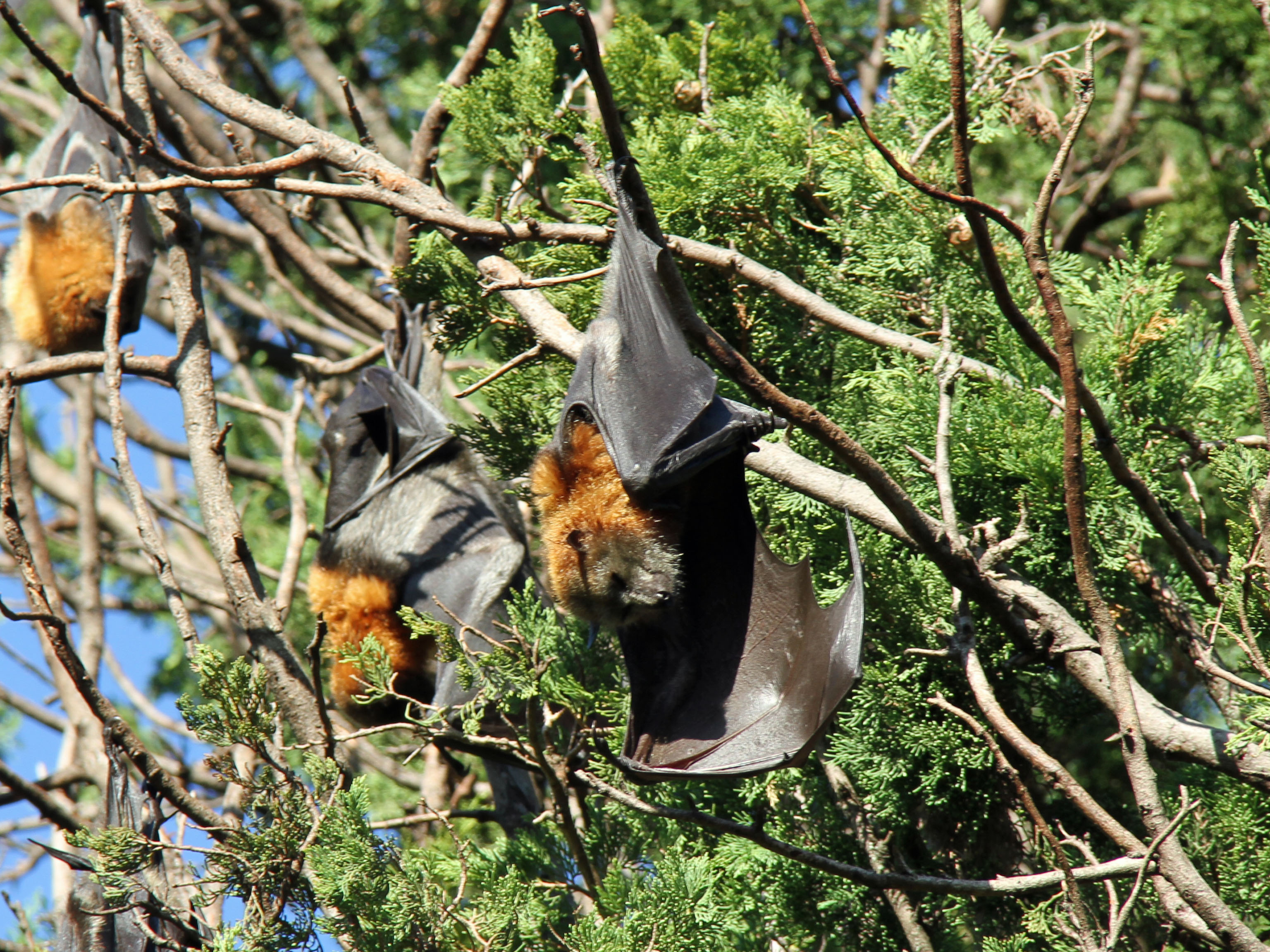 Grey-headed Flying-foxes